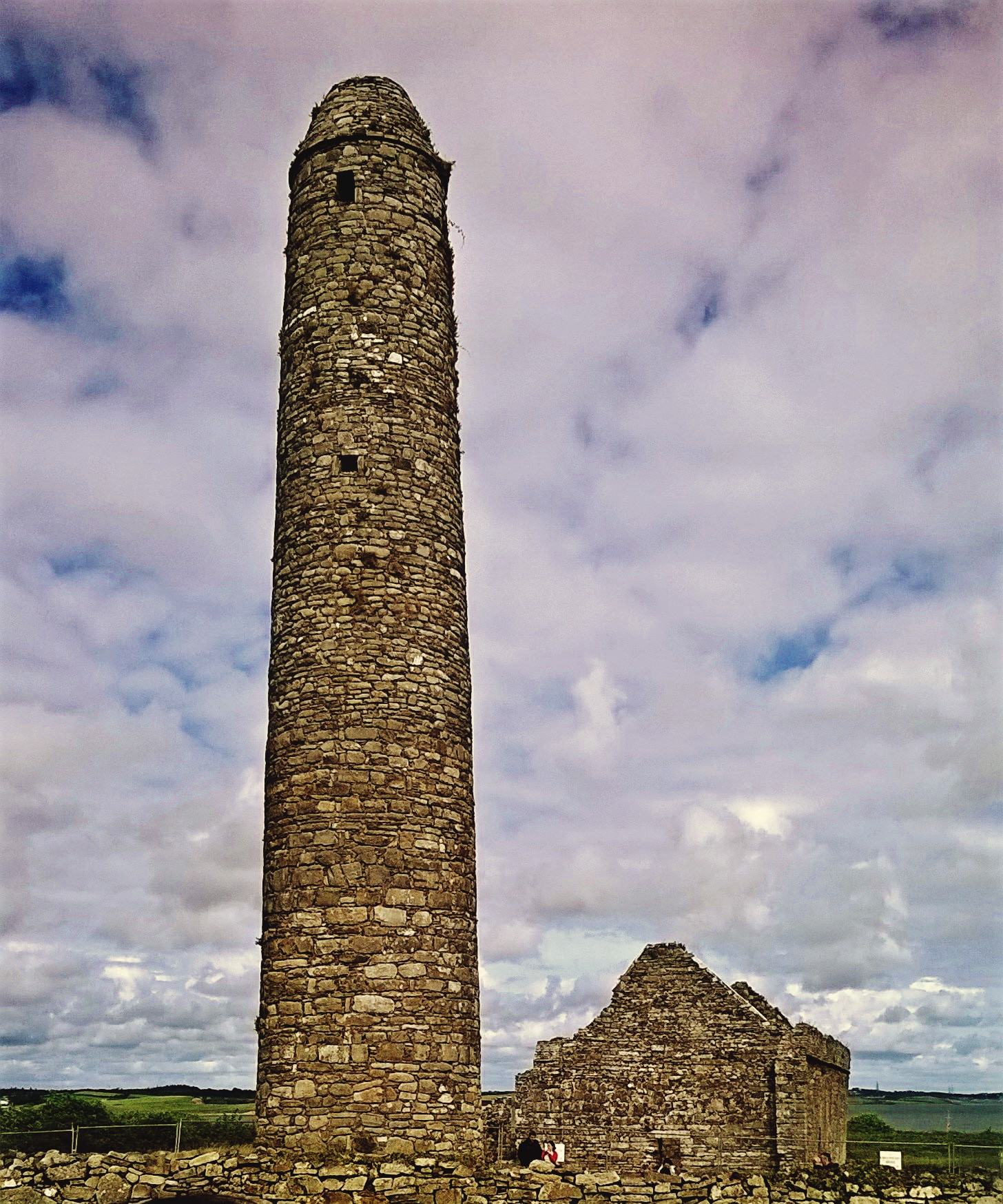 Scattery Island Early Medieval Ecclesiastical Site